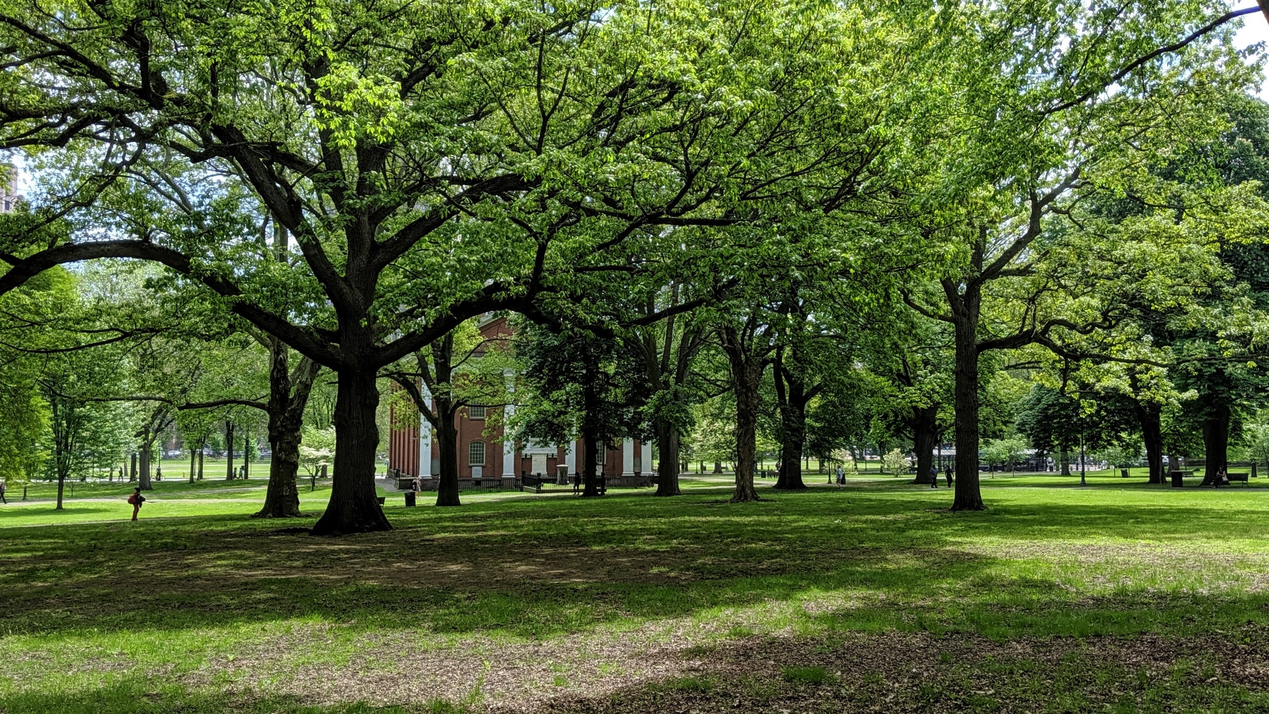 New Haven Green with Center Church on the Green, in May 2019